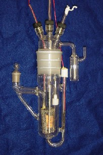 This photo was taken on 2/18/2005 at the United States Navy SPAWAR Systems Center in San Diego, CA. Category:Cold fusion